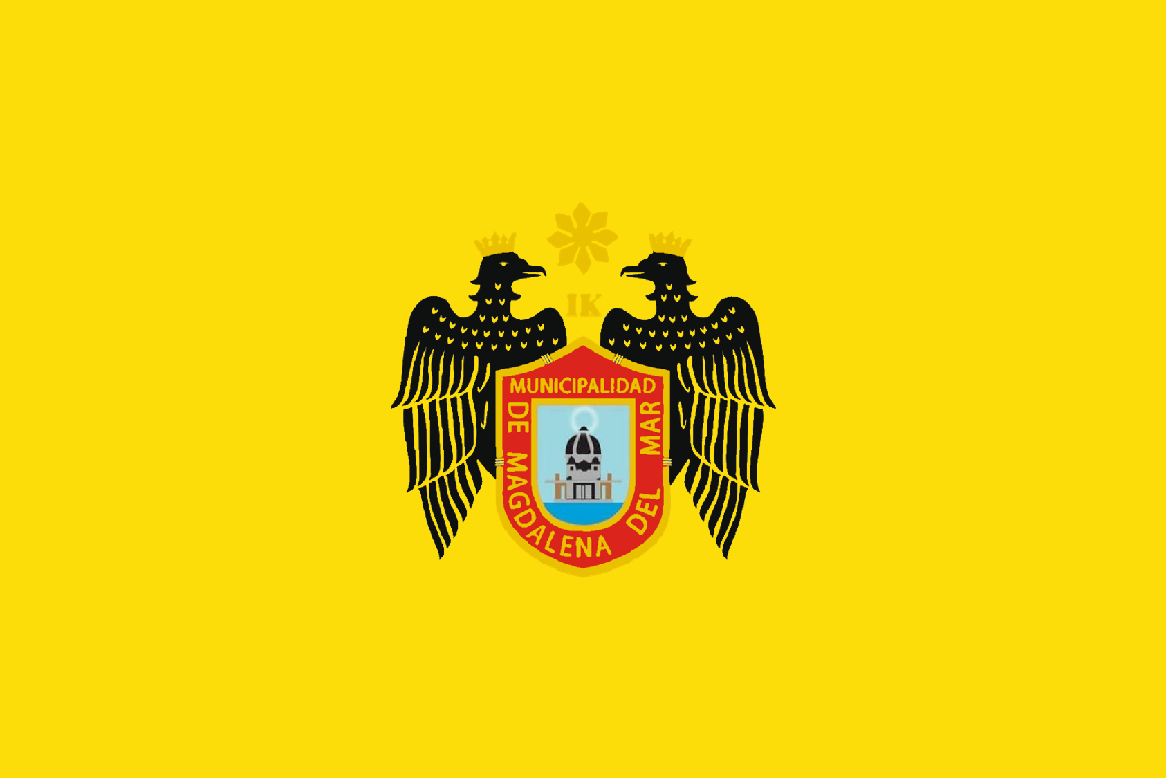 Bandera Magdalena del Mar